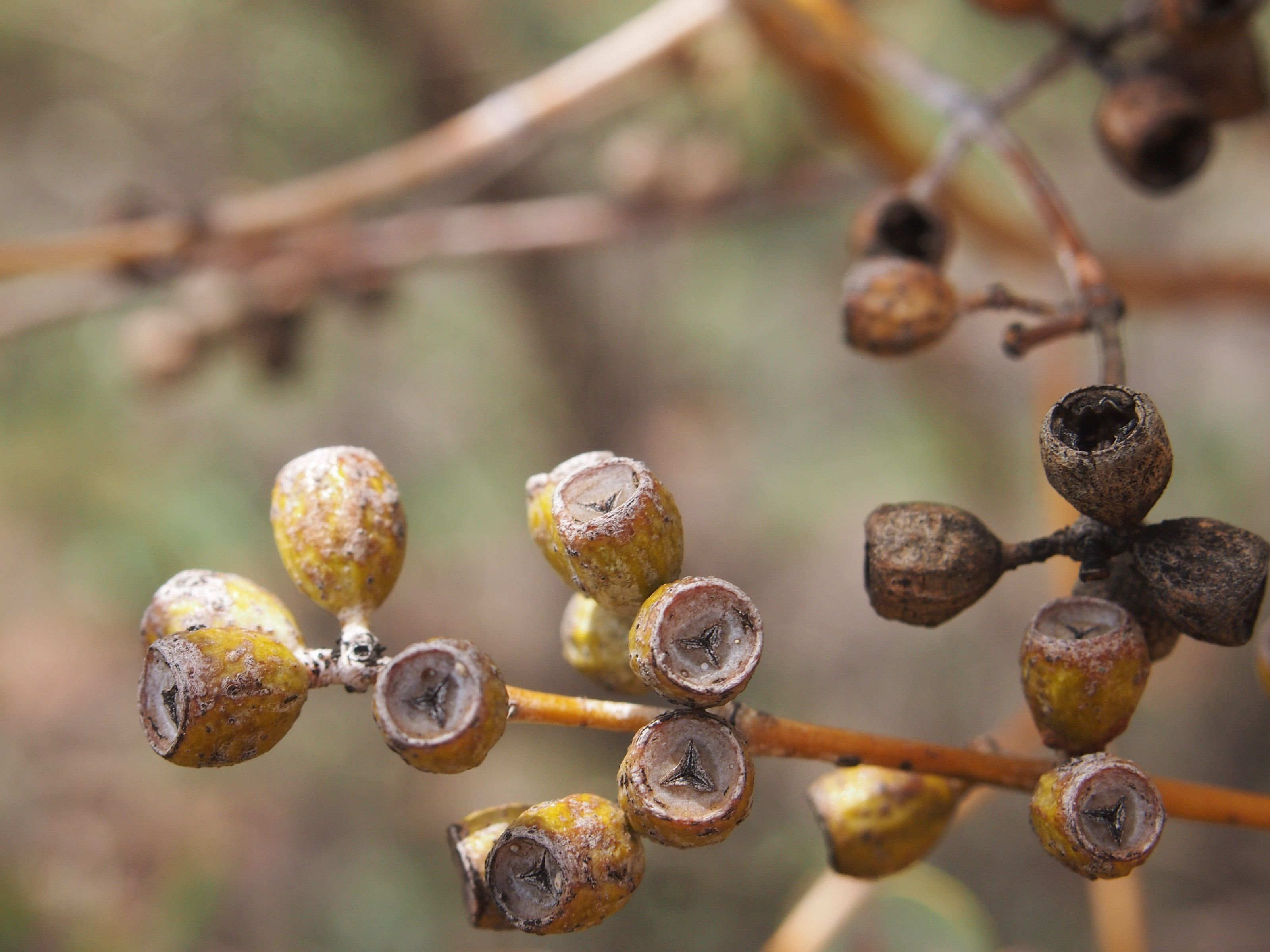 Eucalyptus gamophylla caspules